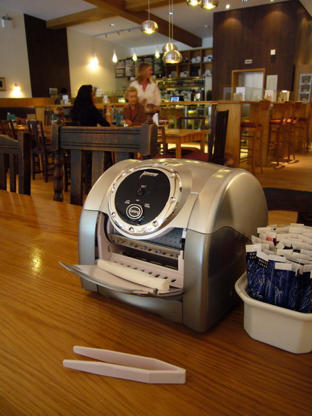 Small compact Hot Towel Dispenser - Photo from MORI Towel (UK)